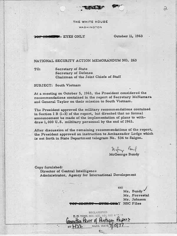 National Security Action Memorandum Number 263